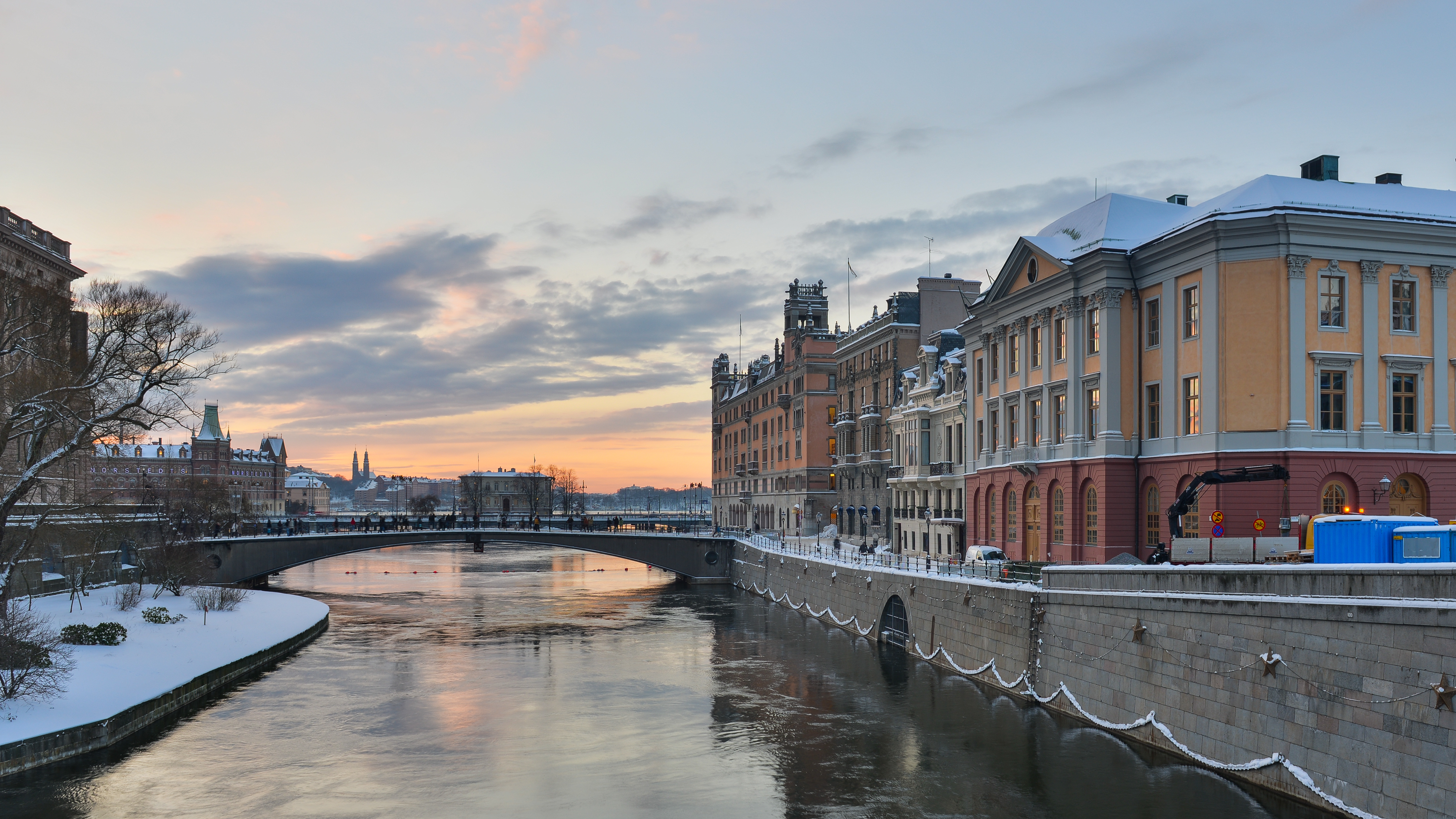 Norrström, Stockholm. December 2012.